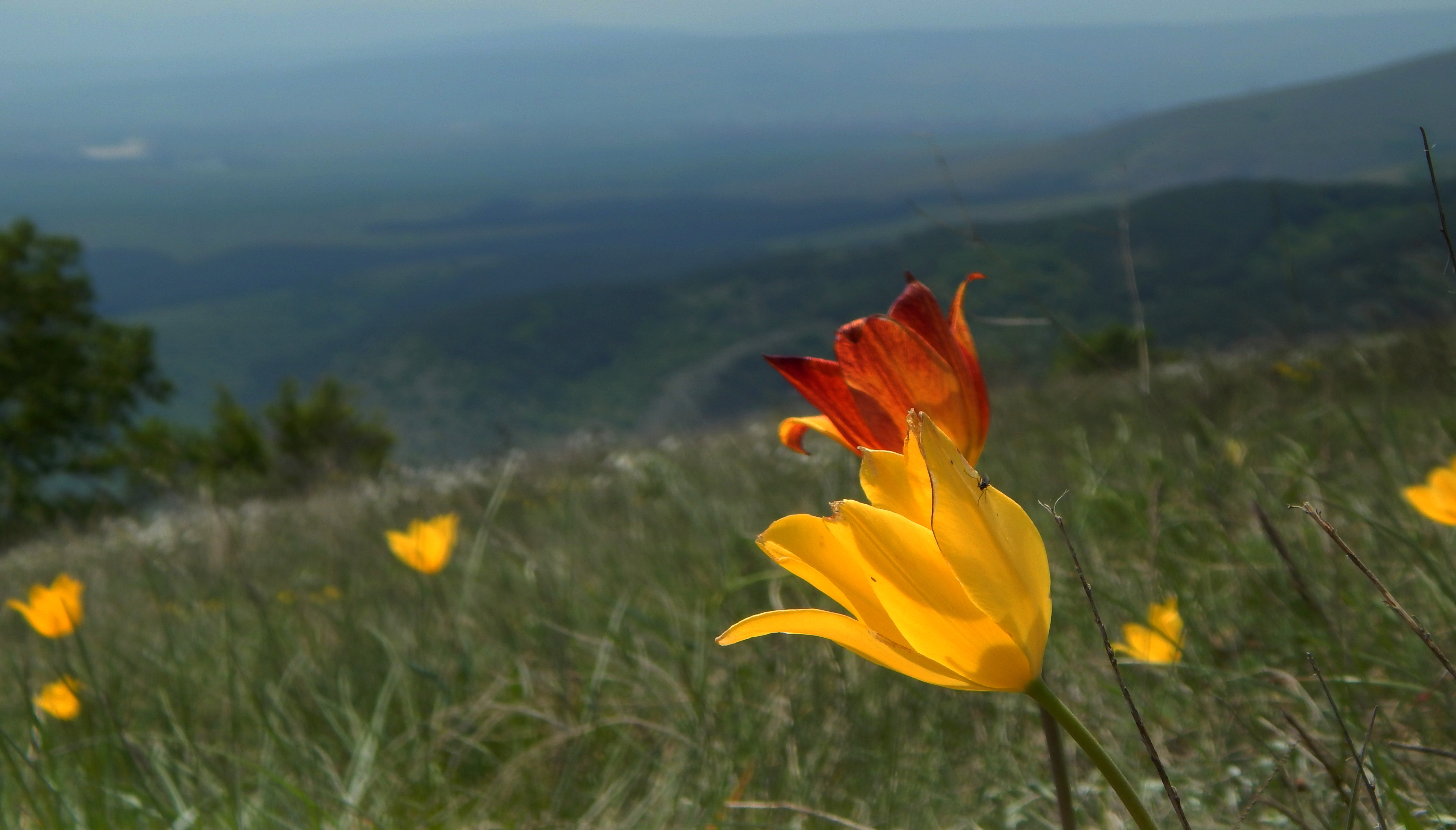 Tulipa urumoffii in Ostritsa Reserve, Bulgaria